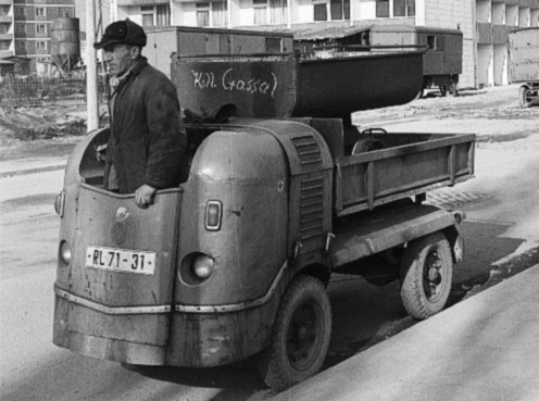 Multicar M21 Diesel-Ameise in the Leninplatz (Wiener Platz), Dresden in East Germany in about 1966.